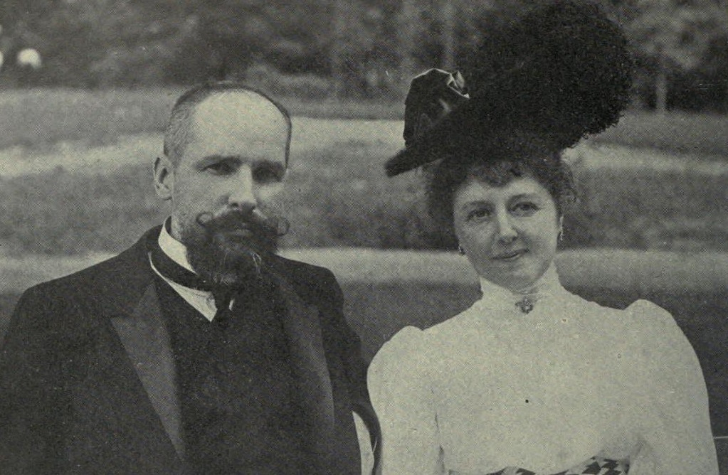 Prime Minister Stolypin and his Wife